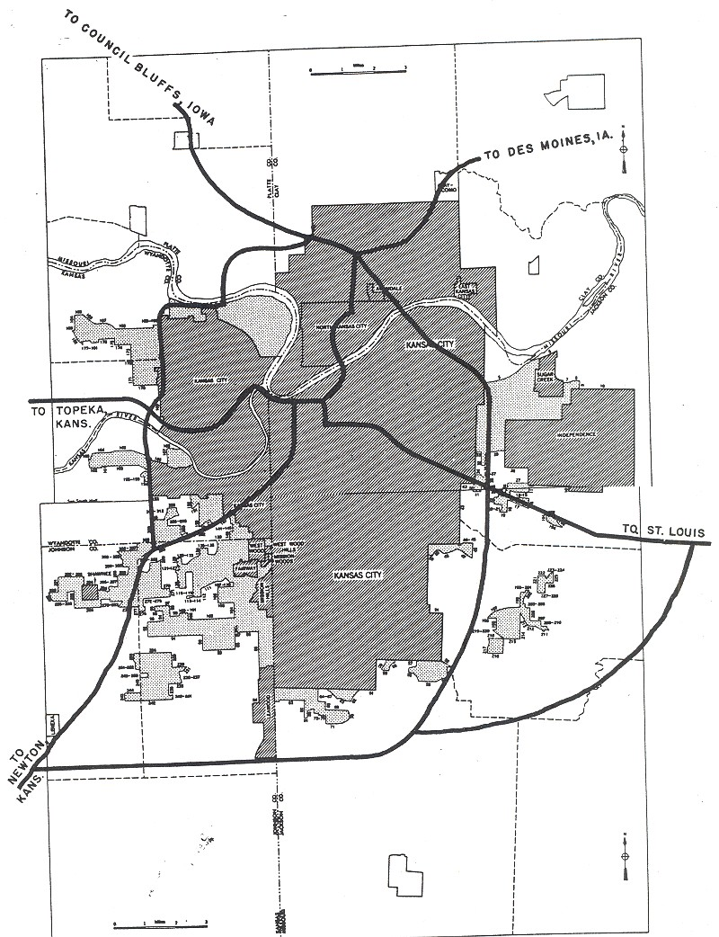 An exerpt from the General Location of National System of Interstate Highways Including All Additional Routes at Urban Areas showing the Kansas City, Missouri area. Interstates in today's terms I-29 I-35 I-70 I-435 (I-35 to I-35; built further north north of I-70) I-470 I-635